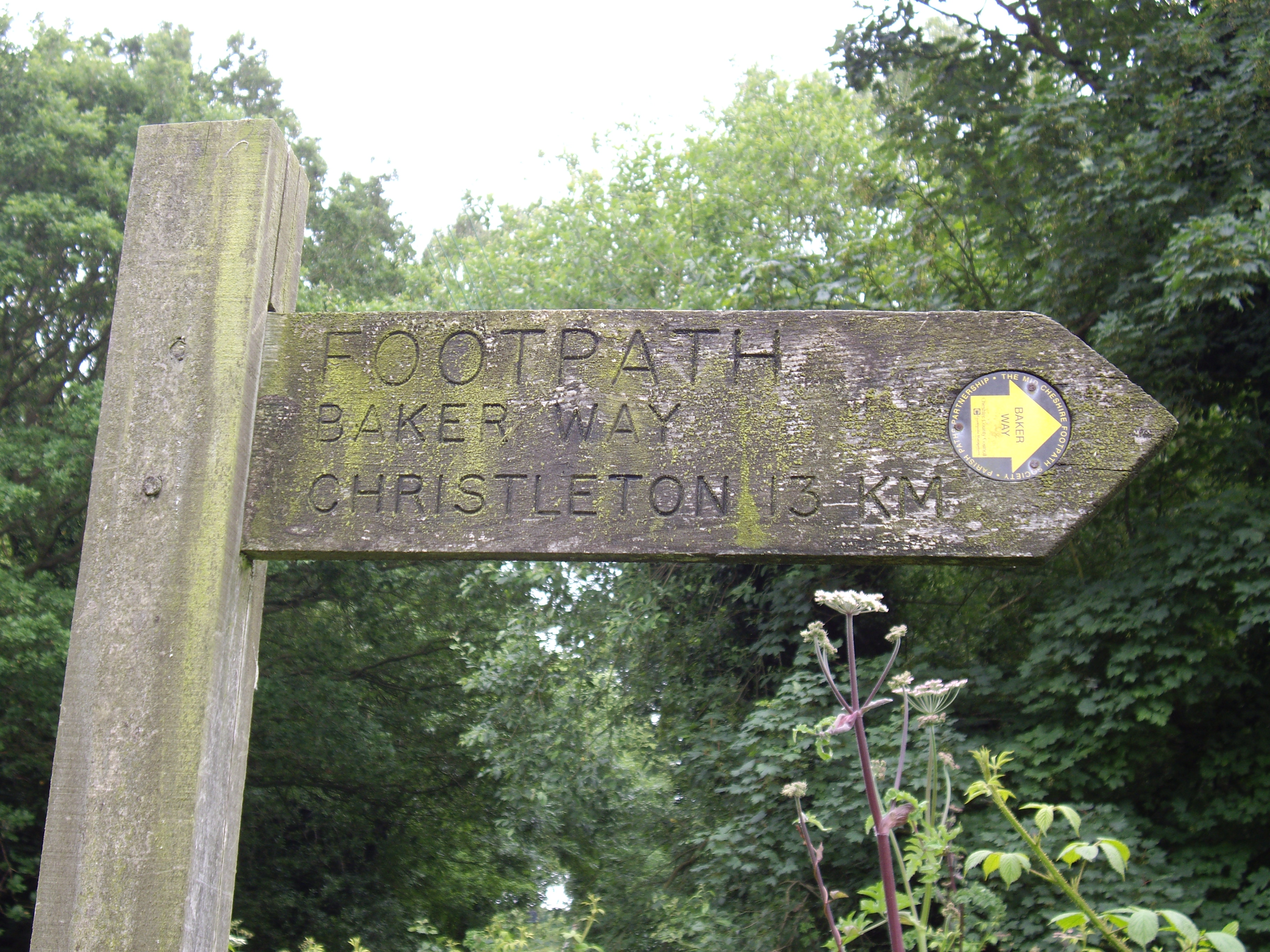 Author and Source: G.Brawn Summary Author and Source: G.Brawn